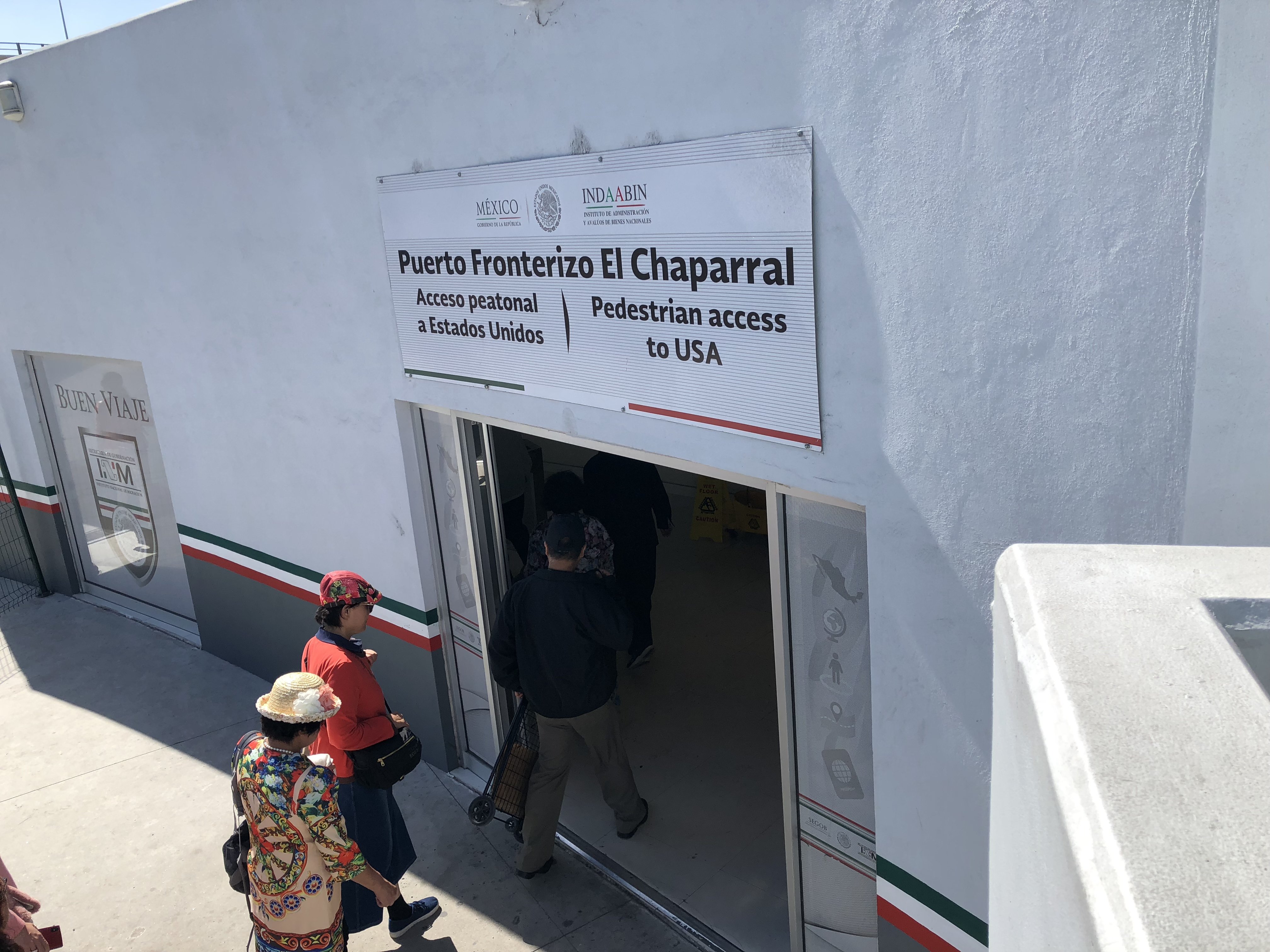 Sign showing Puerto Fronterizo El Chaparral.